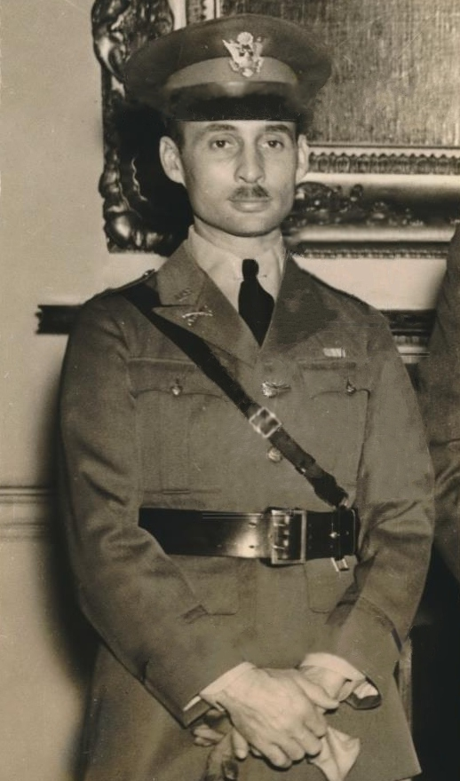 1936 Press Photo Major W.R. Bradford Leader of Crack Cavalry Member of Olympics